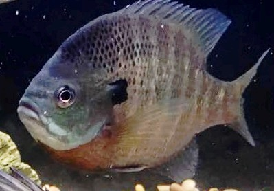 Male bluegill